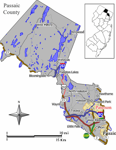 Closeup view of Map of Paterson in Passaic County, New Jersey (extracted from original map work by Jim Irwin, December 2005), with distance scale in miles/kilometers, Interstate-icons enlarged 50%, town names clarified, and edges cropped 130px (width 450px had been 580px).